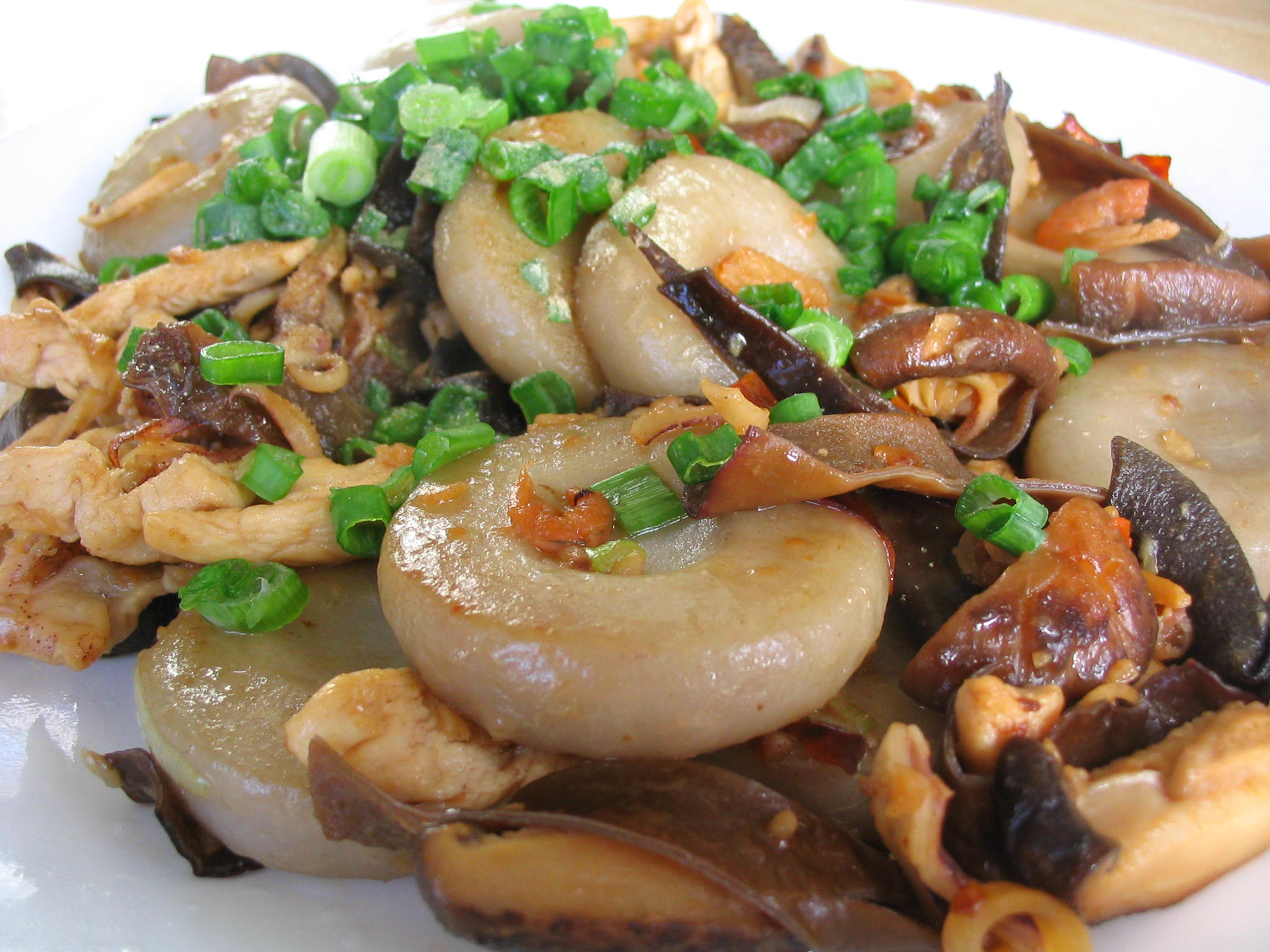 This is suan pan zi (算盘子). the disc-like"object", which is made of yam and flour, looks like the counters in chinese abacus (算盘) and hence the name of the dish. This is a popular traditional Hakka (客家) dish and it is popular in taiwan too.